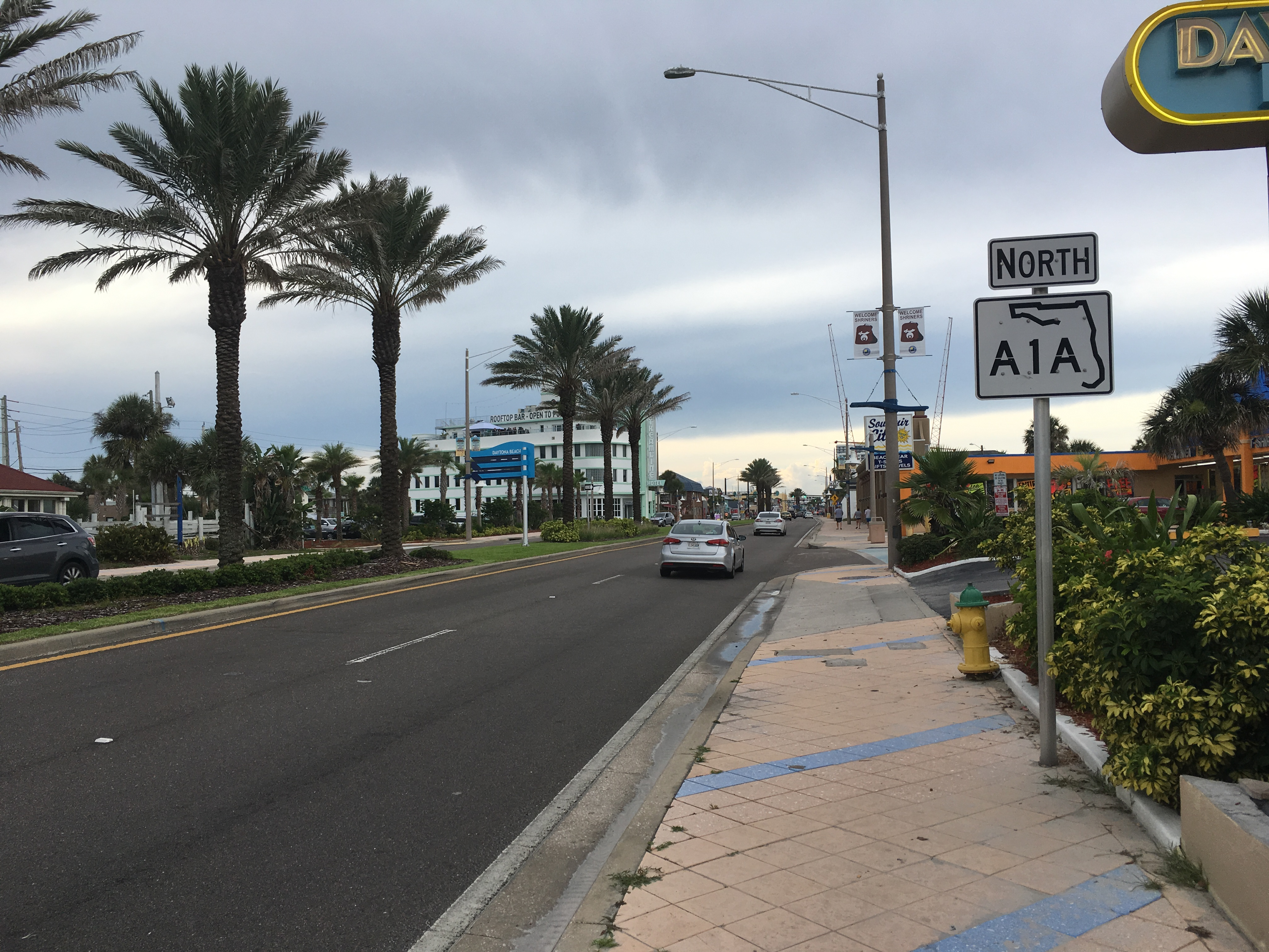 Northbound Florida State Road A1A (Atlantic Avenue) past the intersection with the eastern terminus of U.S. Route 92 (International Speedway Boulevard) in Daytona Beach, Florida.